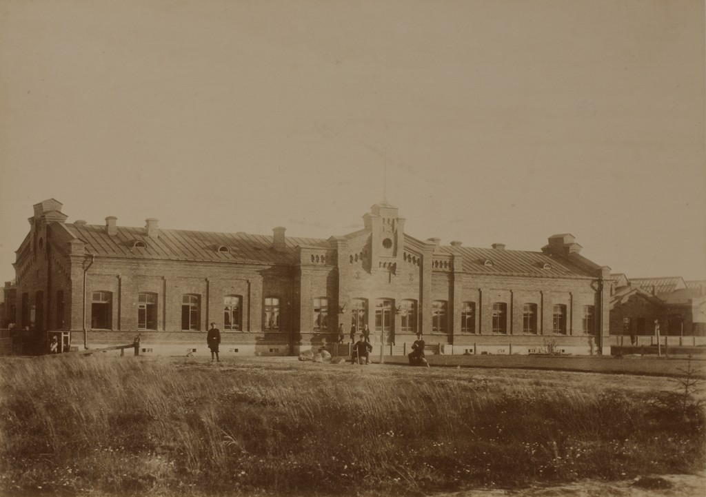 Valga train station, street side view